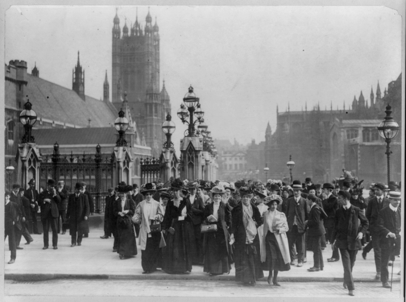 Title: Group of suffragettes standing outside Parliament - London, ca. 1910 Abstract/medium: 1 photographic print.